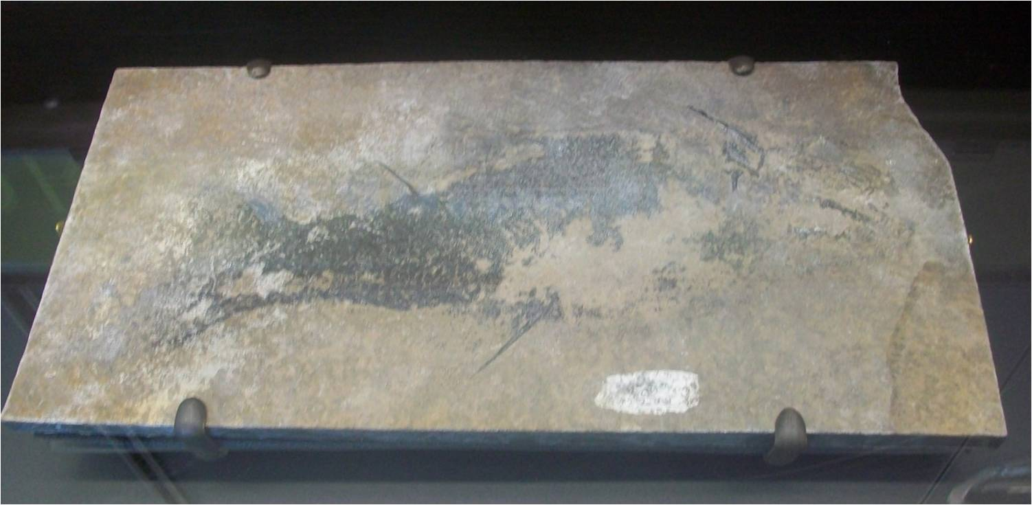 Fossil of Cheiracanthus murchisoni at the Amherst Museum of Natural History.